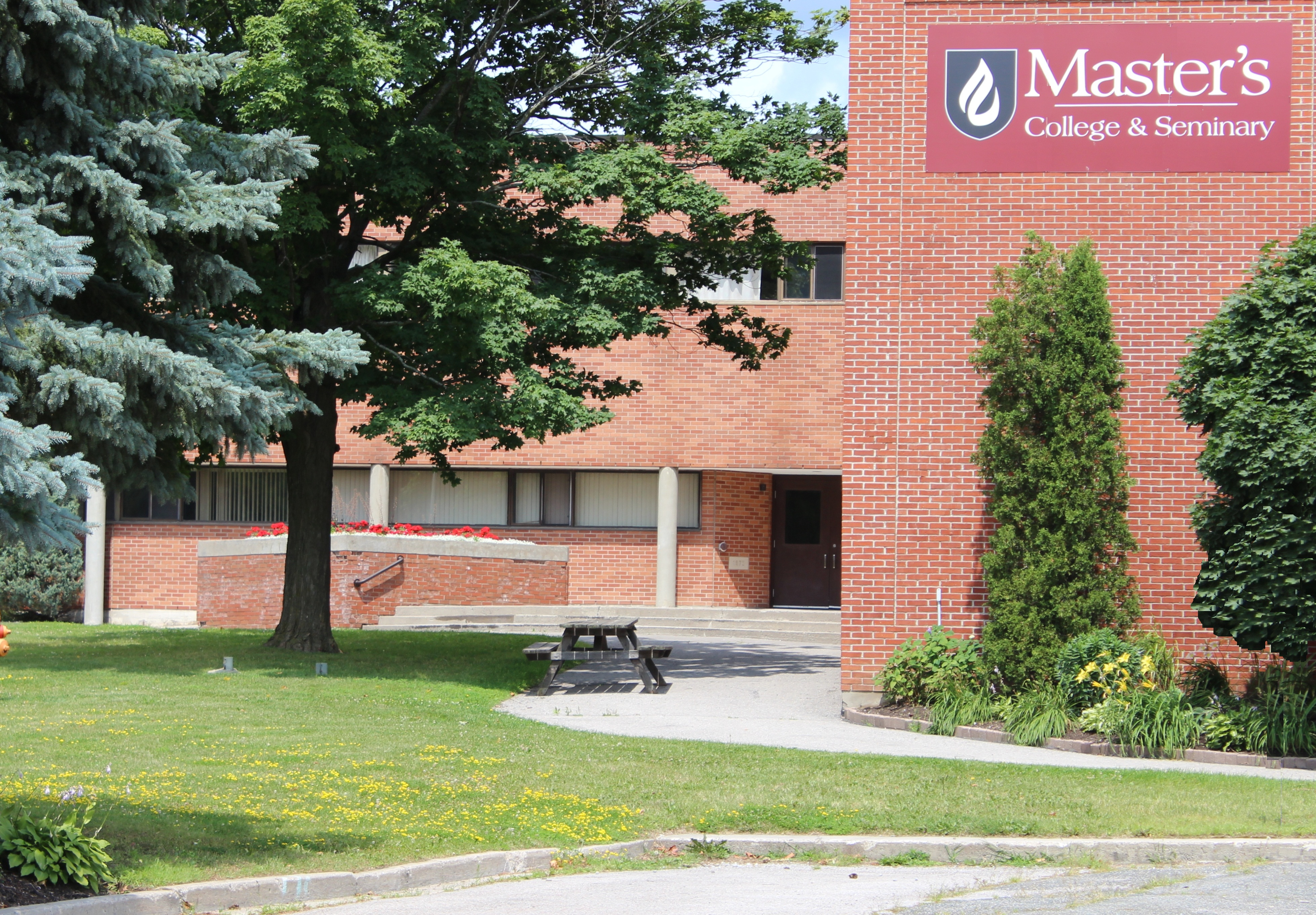 MCS